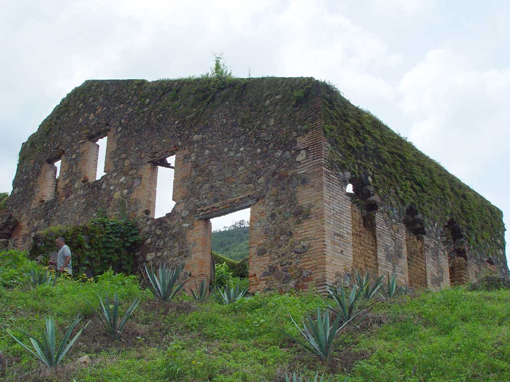 Ruins of a foundry (Gold and Silver reduction) hacienda in San Sebastián, Mexico.